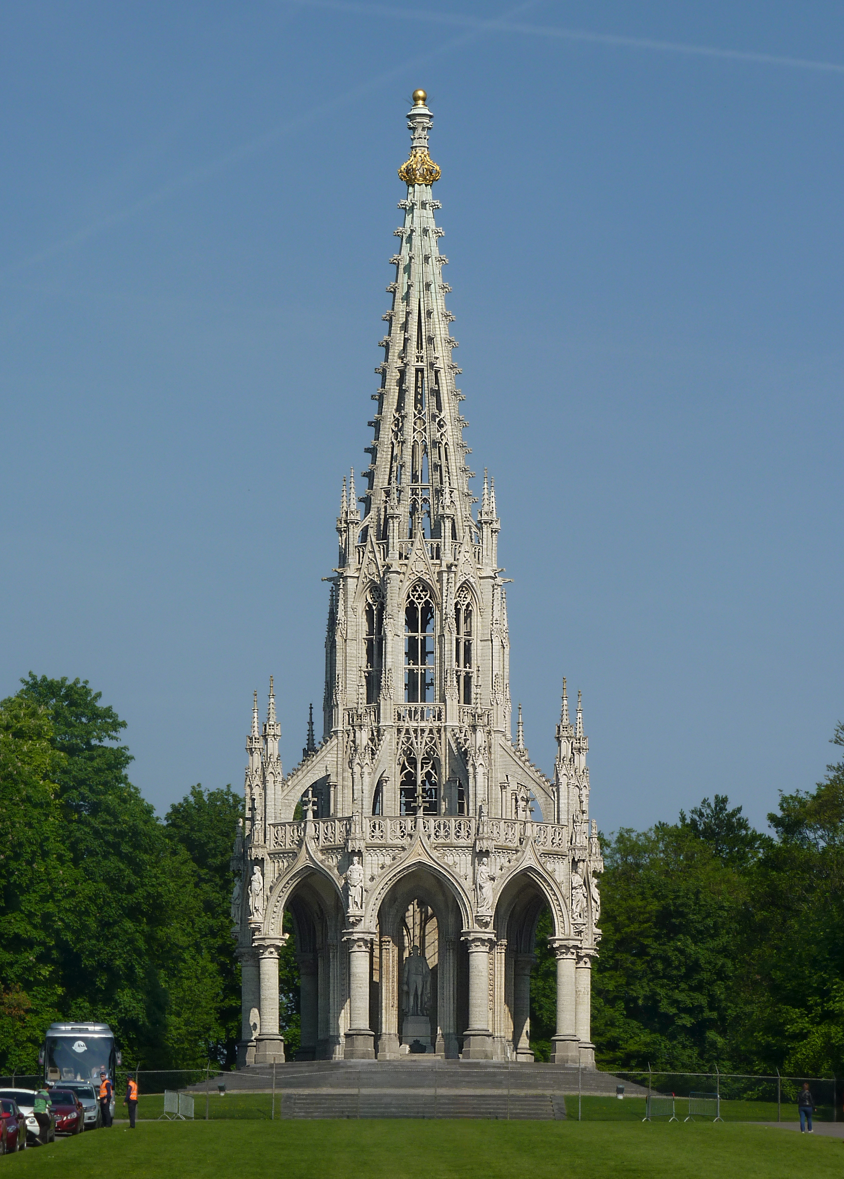 Monument of the dynasty in Laeken, Brussels, Belgium. In the centre of the monument, a statue of the king Leopold 1st.